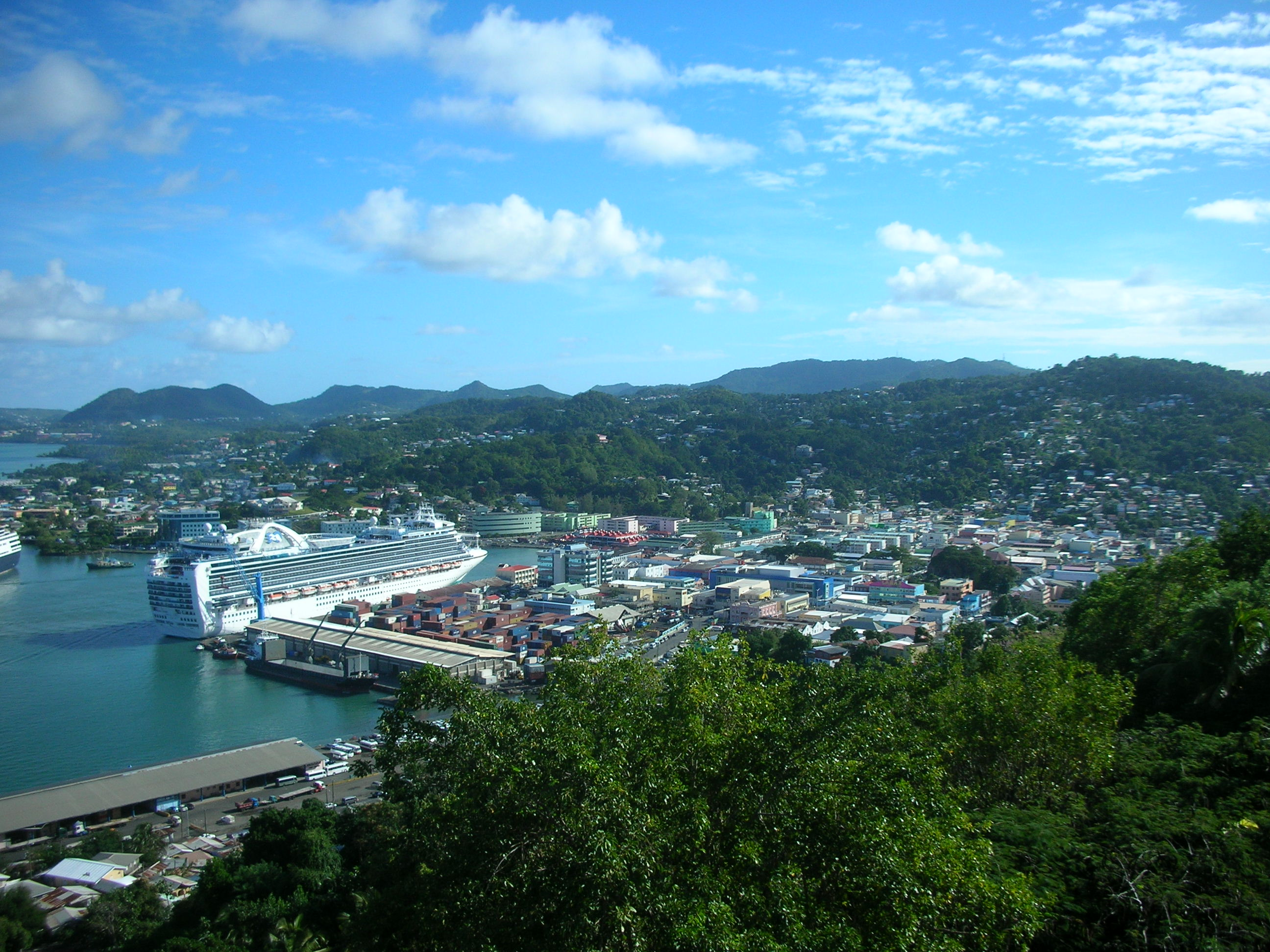 Port of Castries, Saint Lucia, West Indies